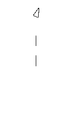 Drawing a dash using UBCLogo, GPL'd LOGO programming language interpretor. Screen captured on FreeBSD without window border.